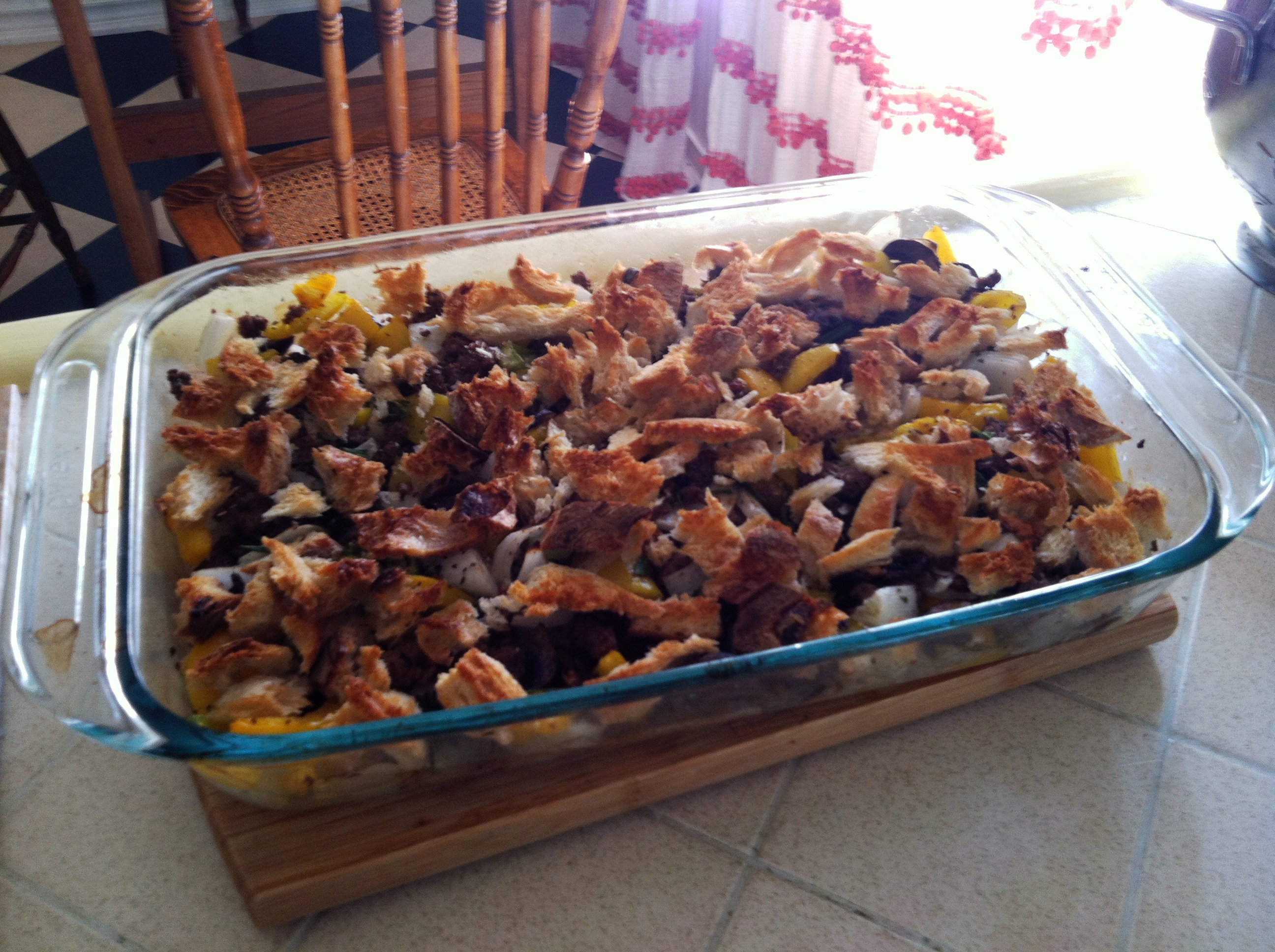 A casserole made in California, with ground beef, onions, peppers, mushrooms, herbs and spices, and breadcrumbs.